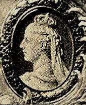 Queen Sofia of Sweden (1872-1907) in her crown